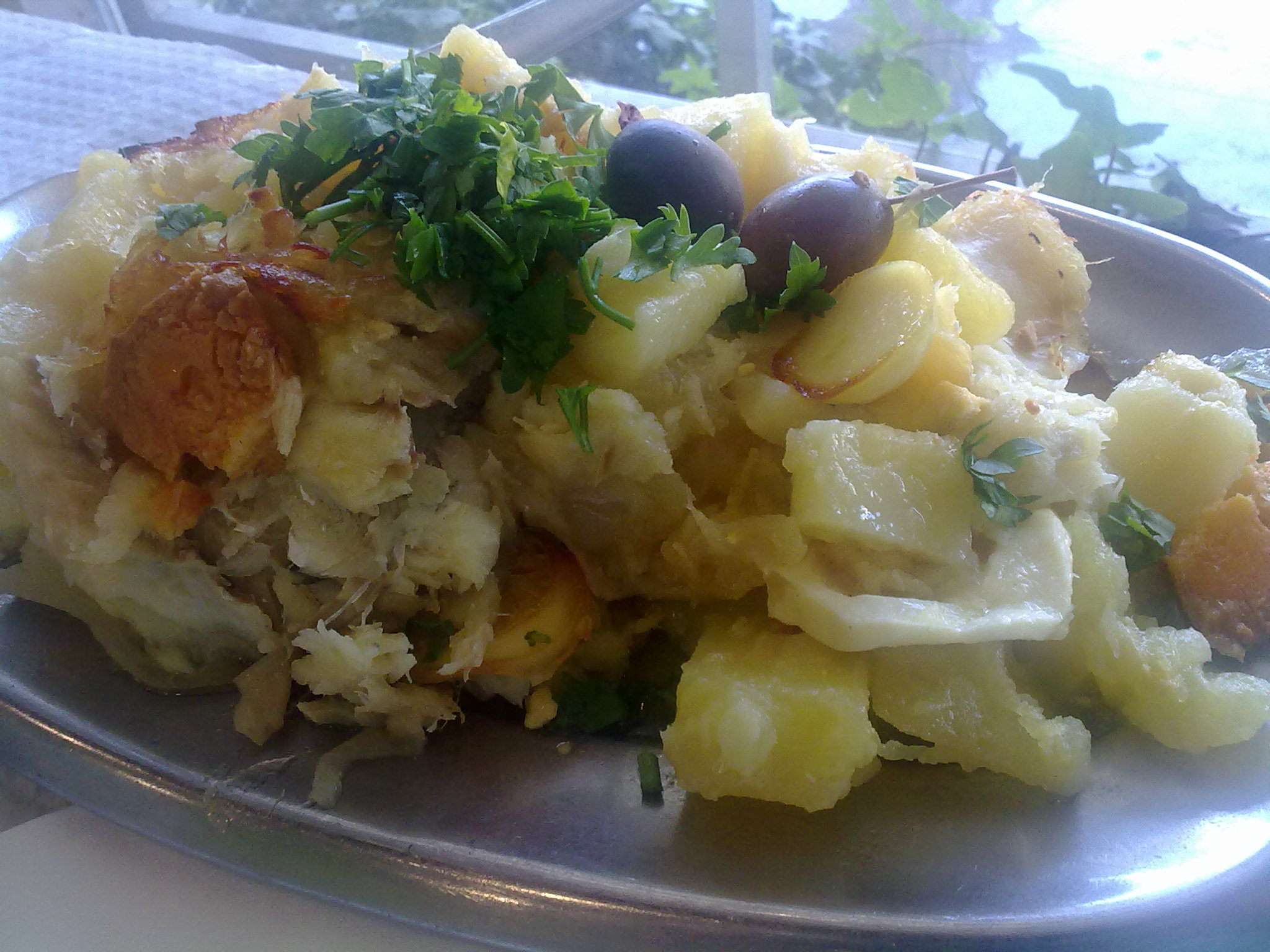 "Bacalhau à Gomes de Sá" (Gomes de Sá style cod), a portuguese dish.